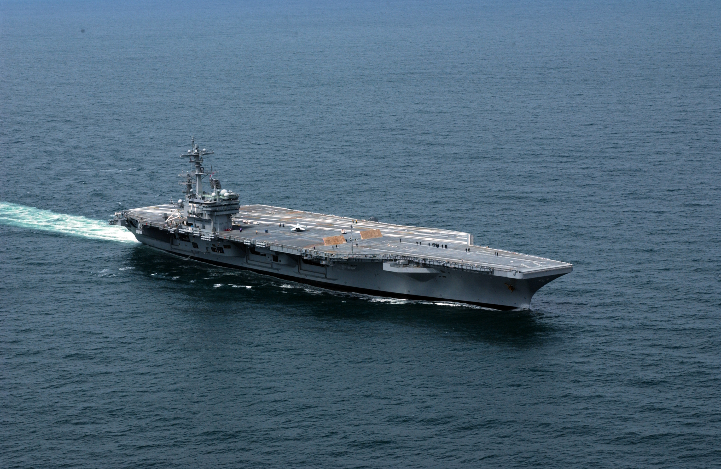 The aircraft carrier USS George H.W. Bush (CVN 77) is underway from Naval Station Norfolk conducting acceptance trials and the Board of Inspections and Survey to test the ship's material conditions and readiness. (U.S. Navy photo by Mass Communication Specialist 1st class Demetrius L. Patton/Released)